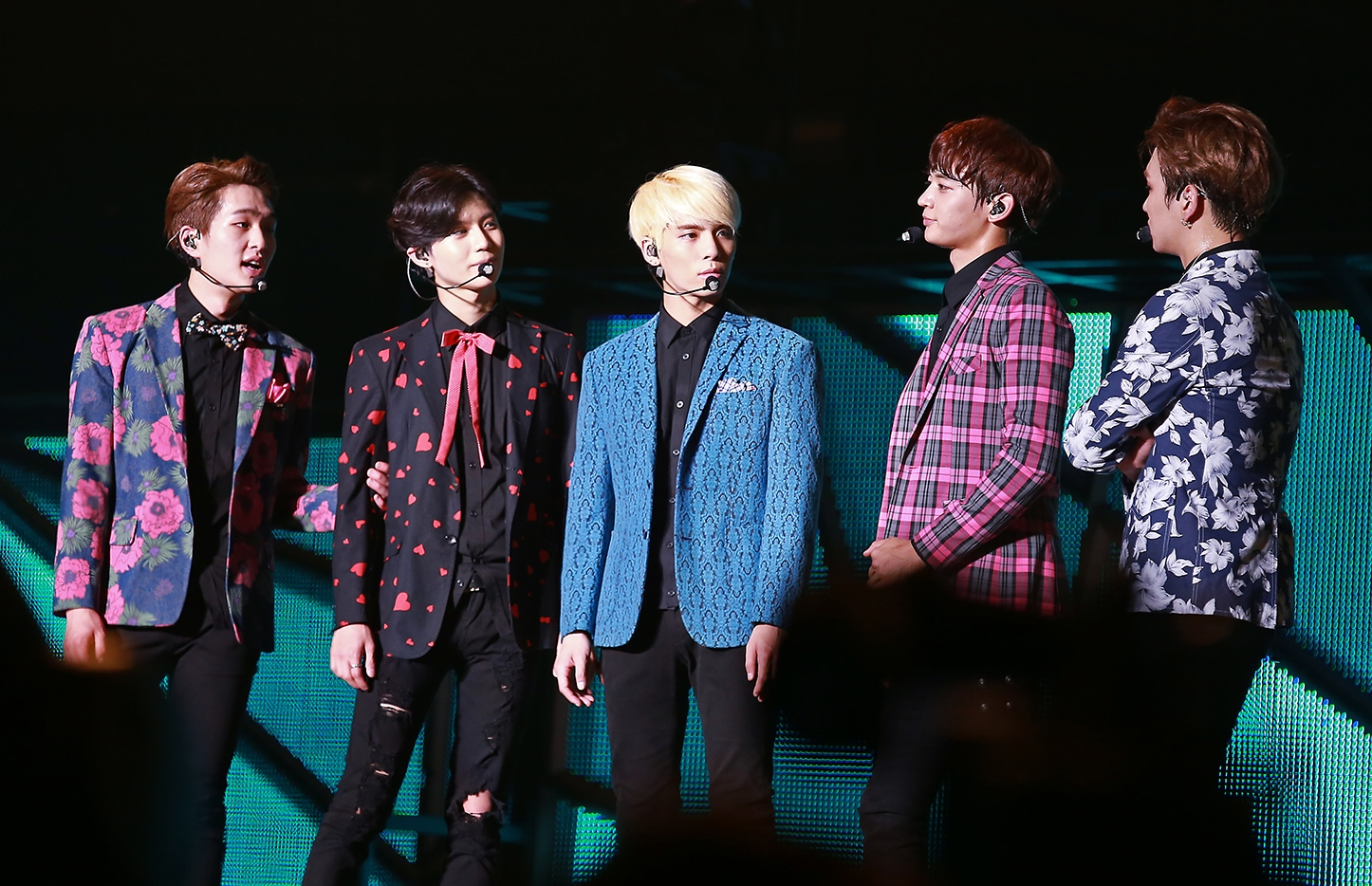 Shinee at the SHINee World Concert III in Taiwan on May 11, 2014.